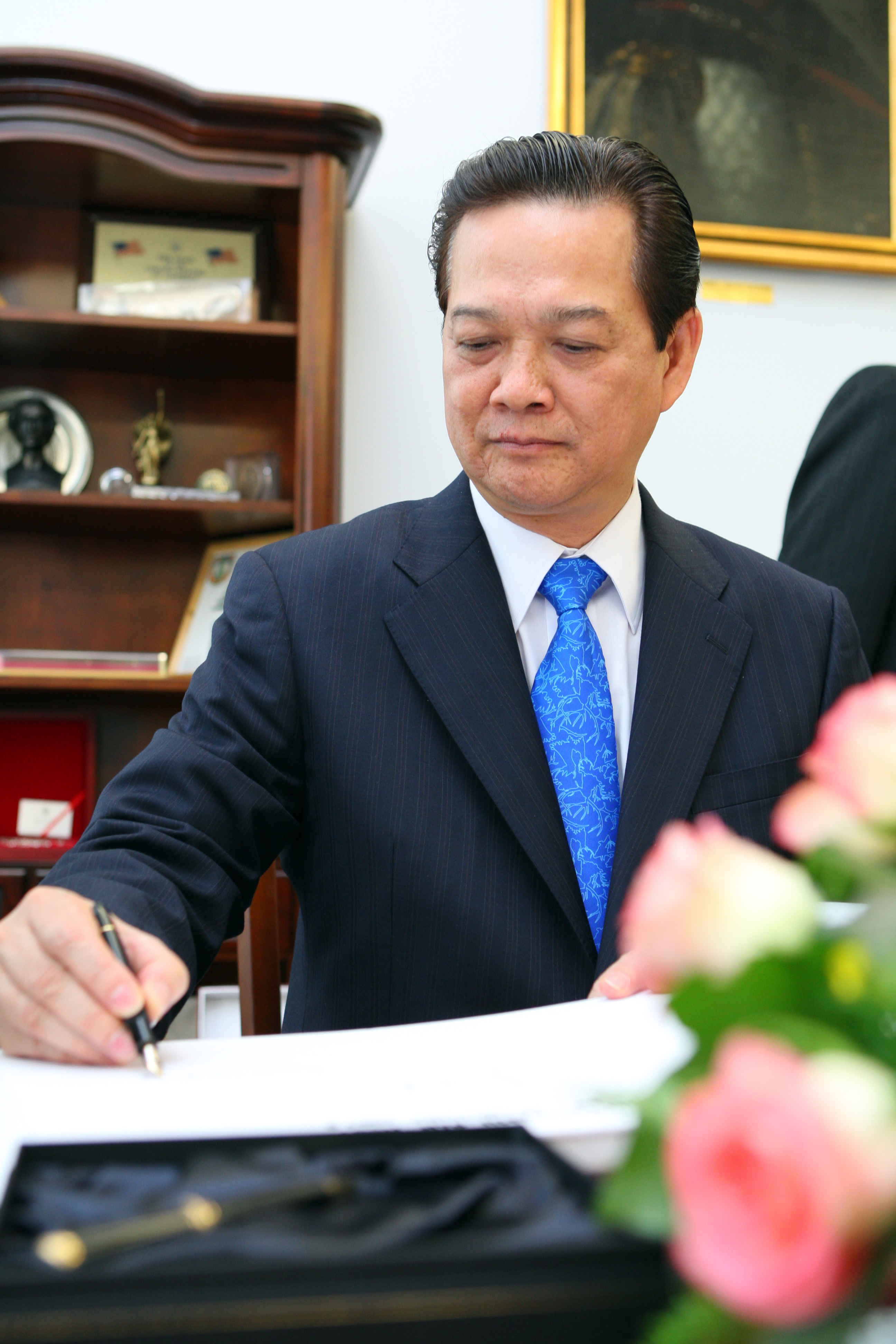 Prime Minister of Vietnam Nguyễn Tấn Dũn in the Polish Senate